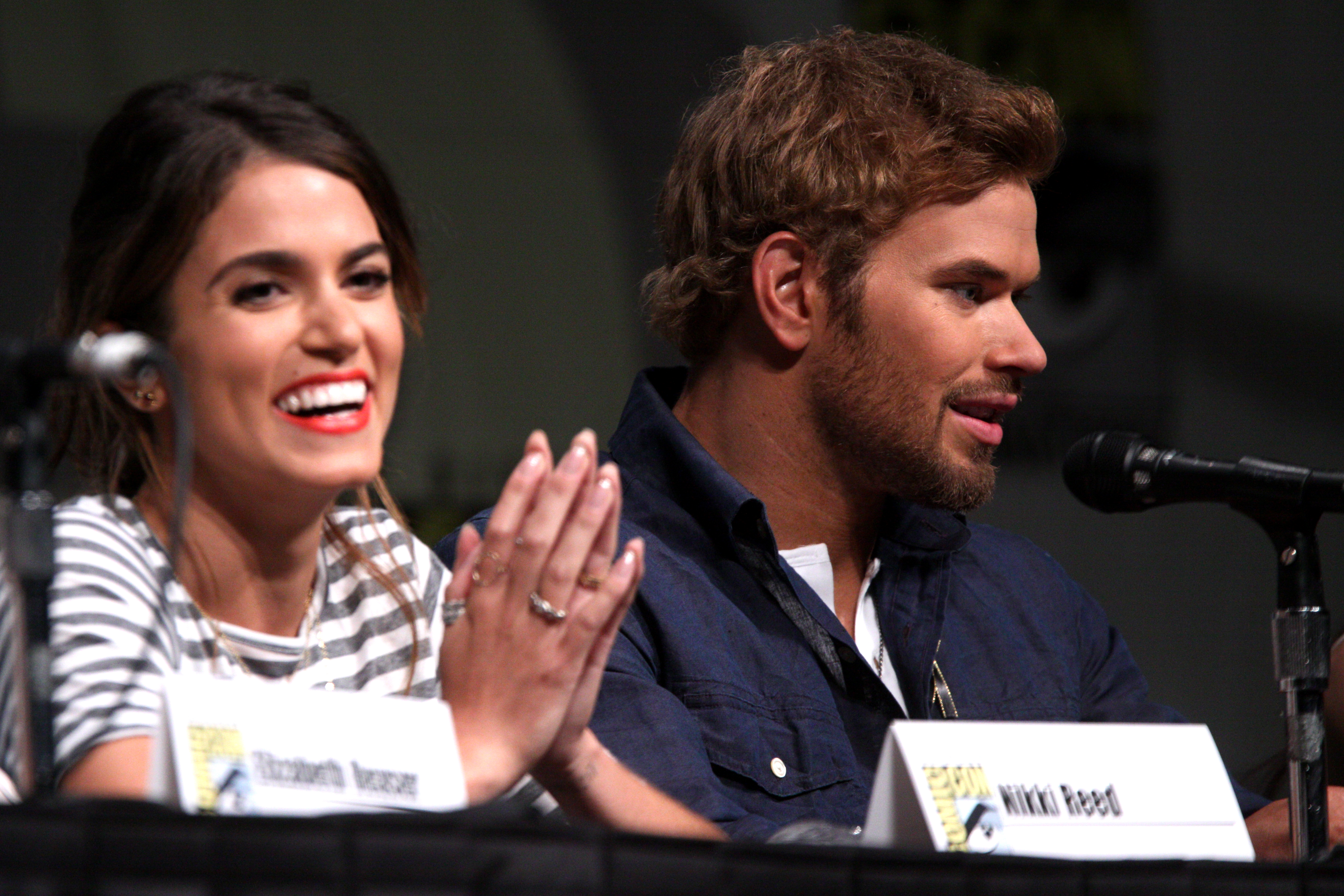 Nikki Reed & Kellan Lutz speaking at the 2012 San Diego Comic-Con International in San Diego, California.